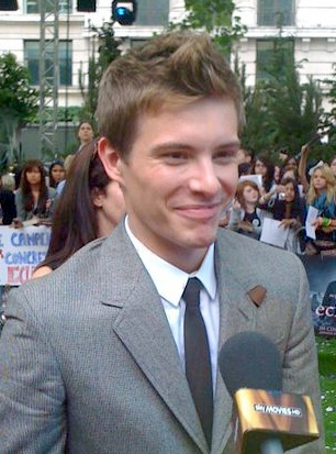 Photo of Xavier Samuel at the Twilight: Eclipse premier in London.